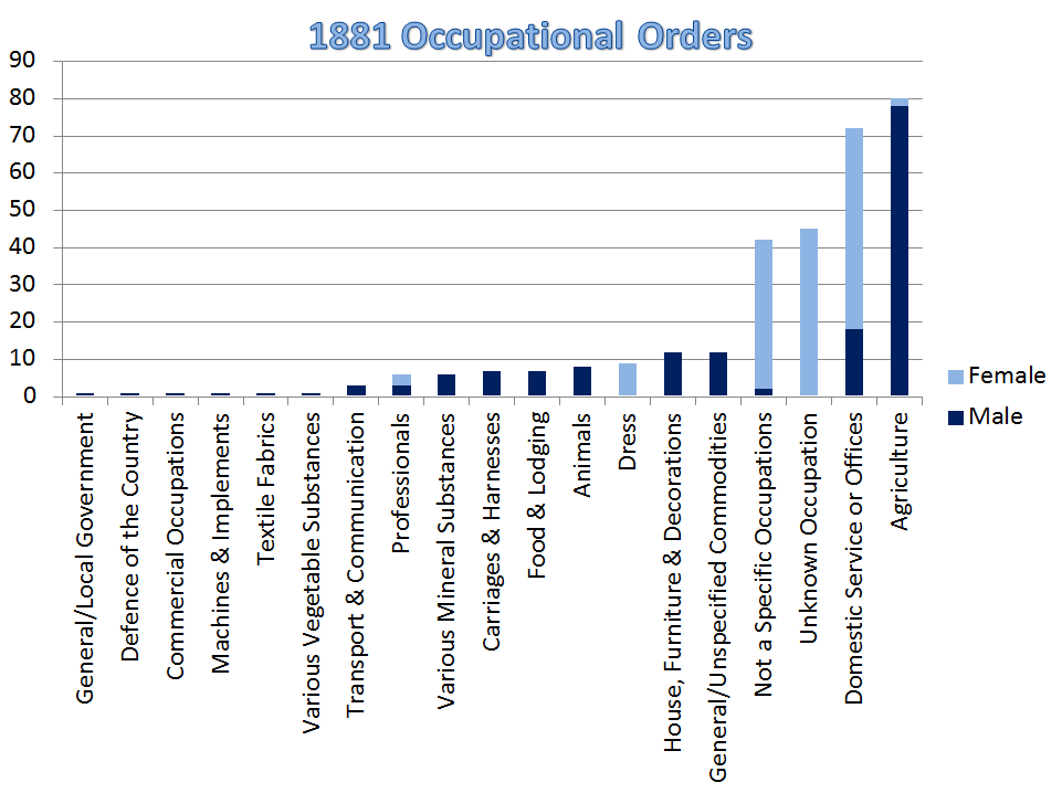 This graph shows the 1881 occupational orders of Astley Abotts